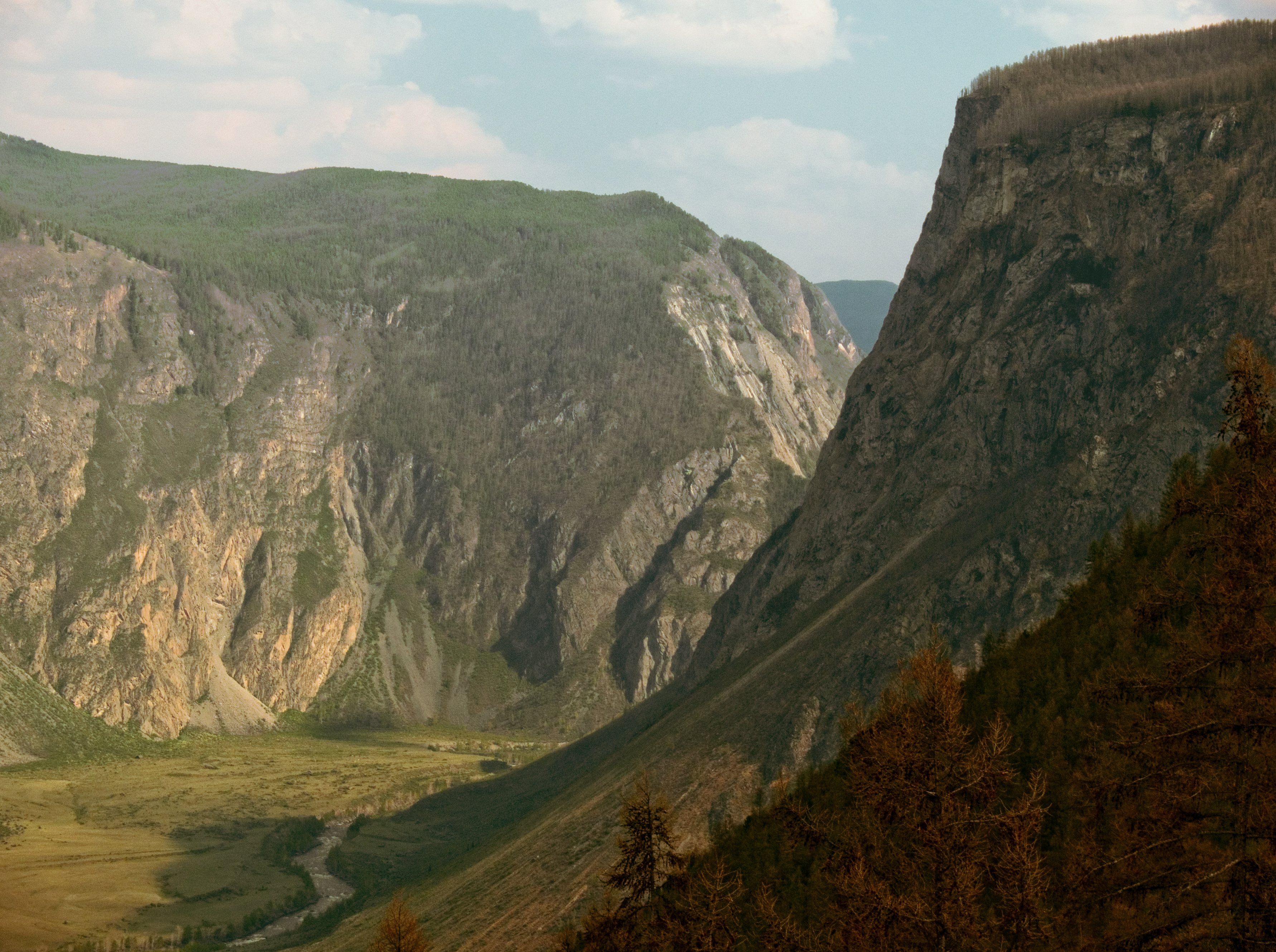 At the Katu-Yaryk pass. Katu-Yaryk pass is a 3.5 km long road cut in the mountain in 1989. The pass brings you 800 meters down to the Chulyshman river and Teleckoe lake, which is just 50 km of fords and off-road away.